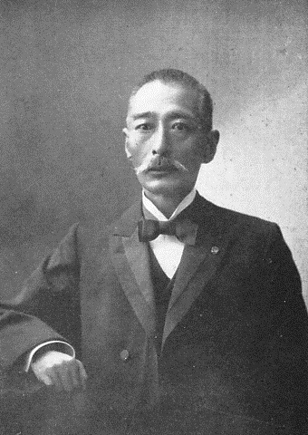 Tarumitsu Uramatsu